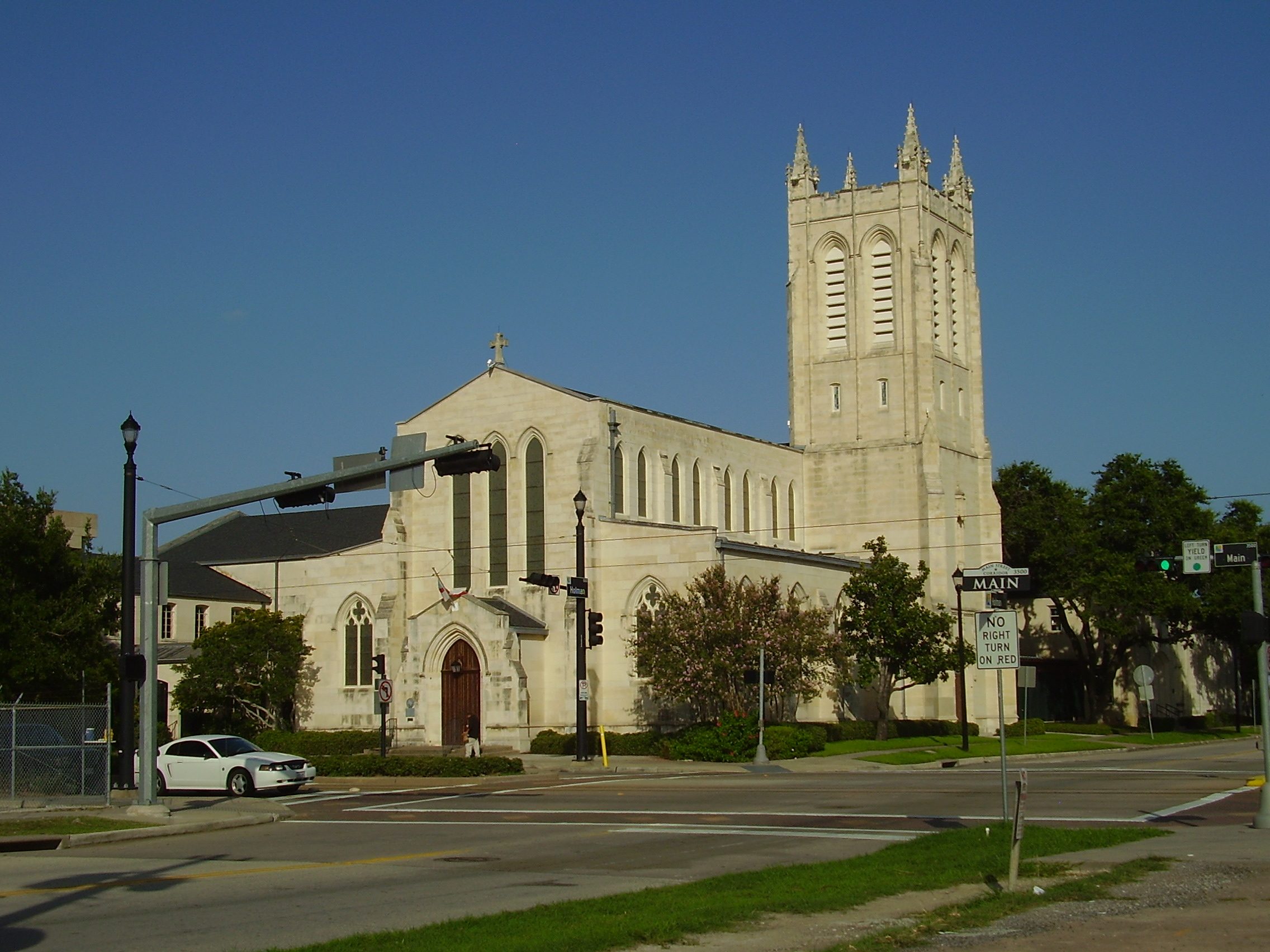 Trinity Episcopal Church in Midtown, Houston